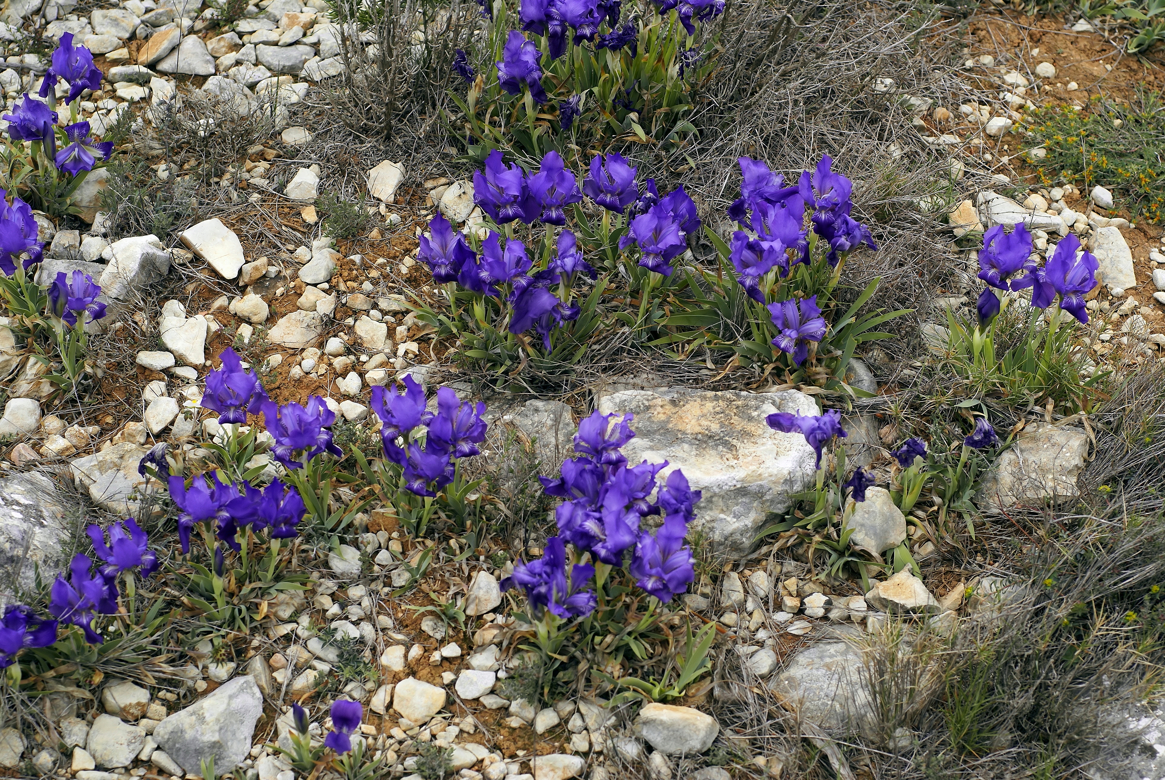 near el Perelló (Catalonia), Spain